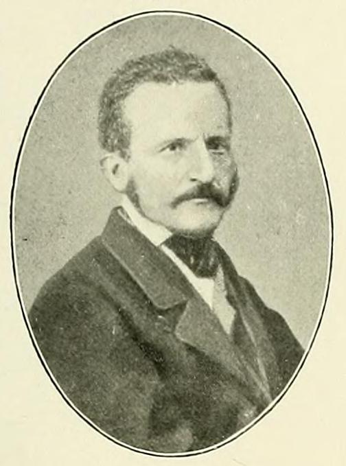 Portrait of the Italian botanist Giuseppe De Notaris.